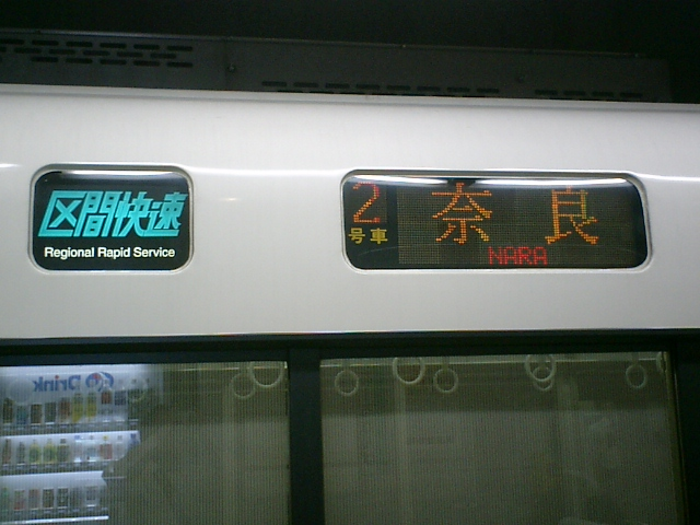 The rollsign of JR West 221 (Left: Train classification rollsign, Right: Cabin No. and Train destination rollsign (LED display)) (Taken at JR Namba Station)